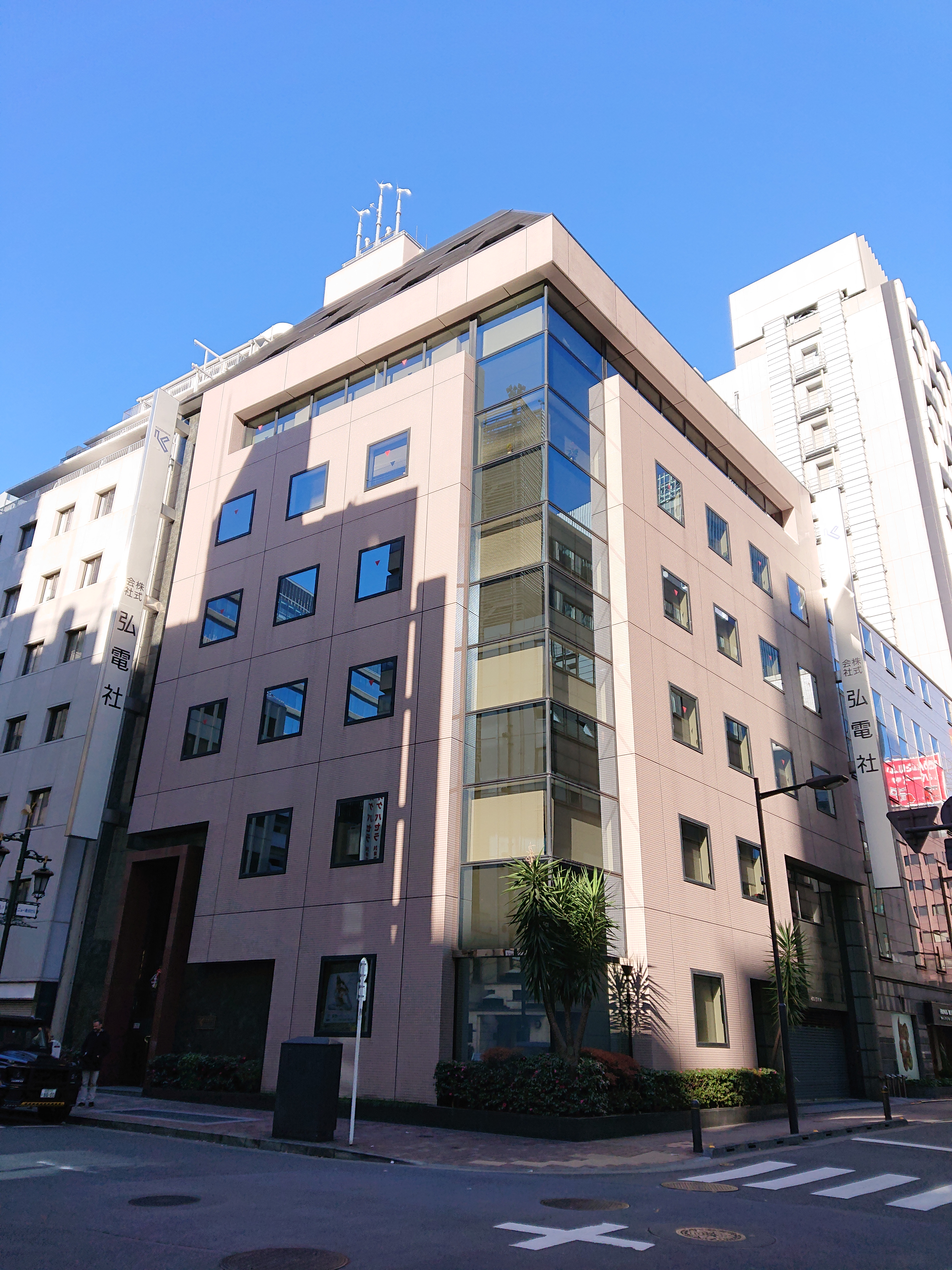 Kodensha Builging (弘電社ビル), located at 5-11-10 Ginza, Chuo, Tokyo, Japan